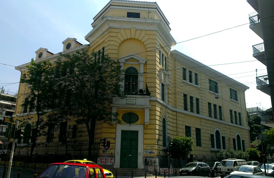 kypseli